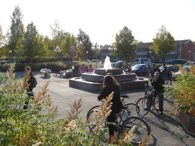 People in Kauhajoki market place after Kauhajoki shooting incident.